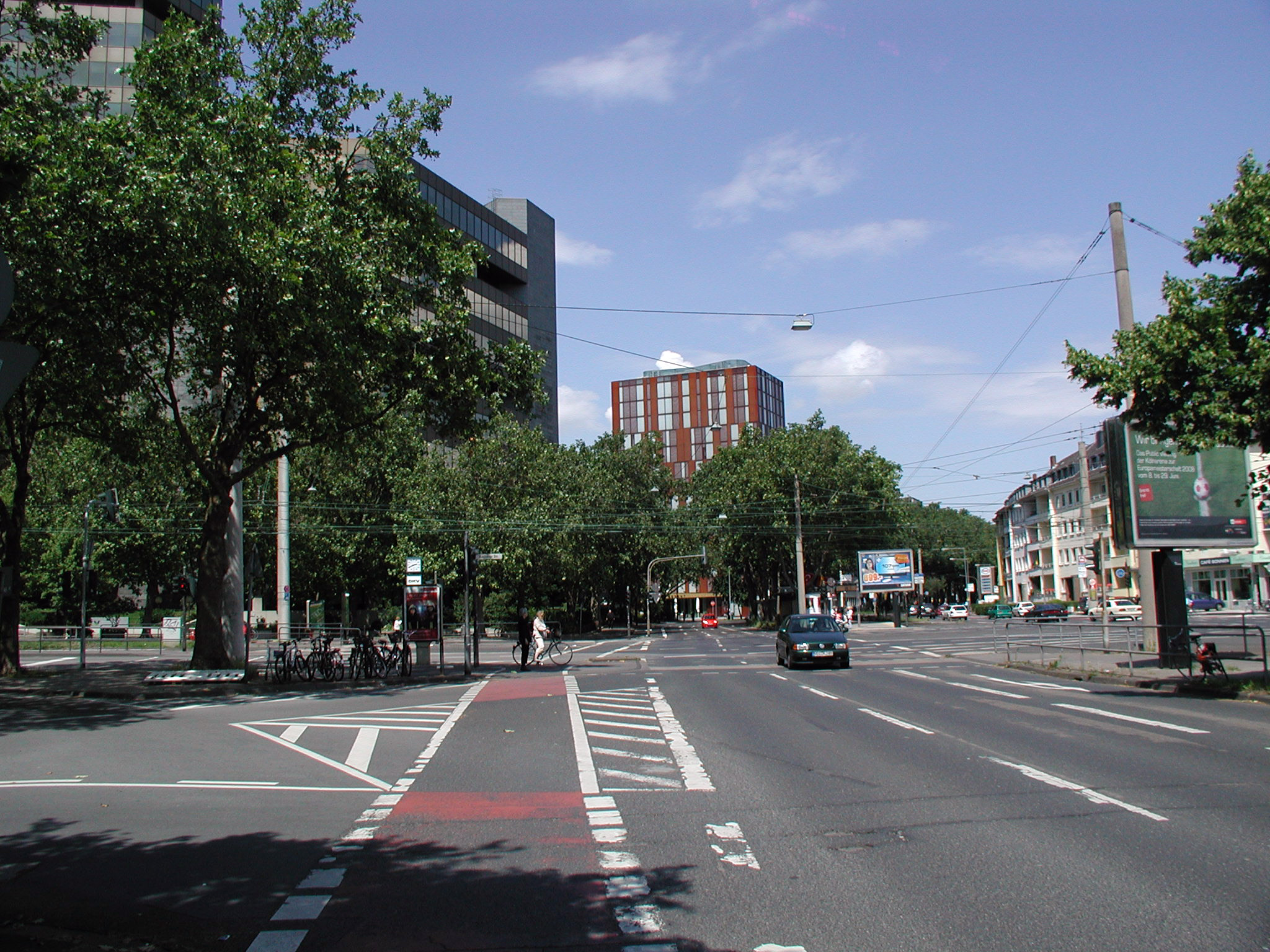 Cologne, crossing Aachener Str. towards Melaten-Gürtel